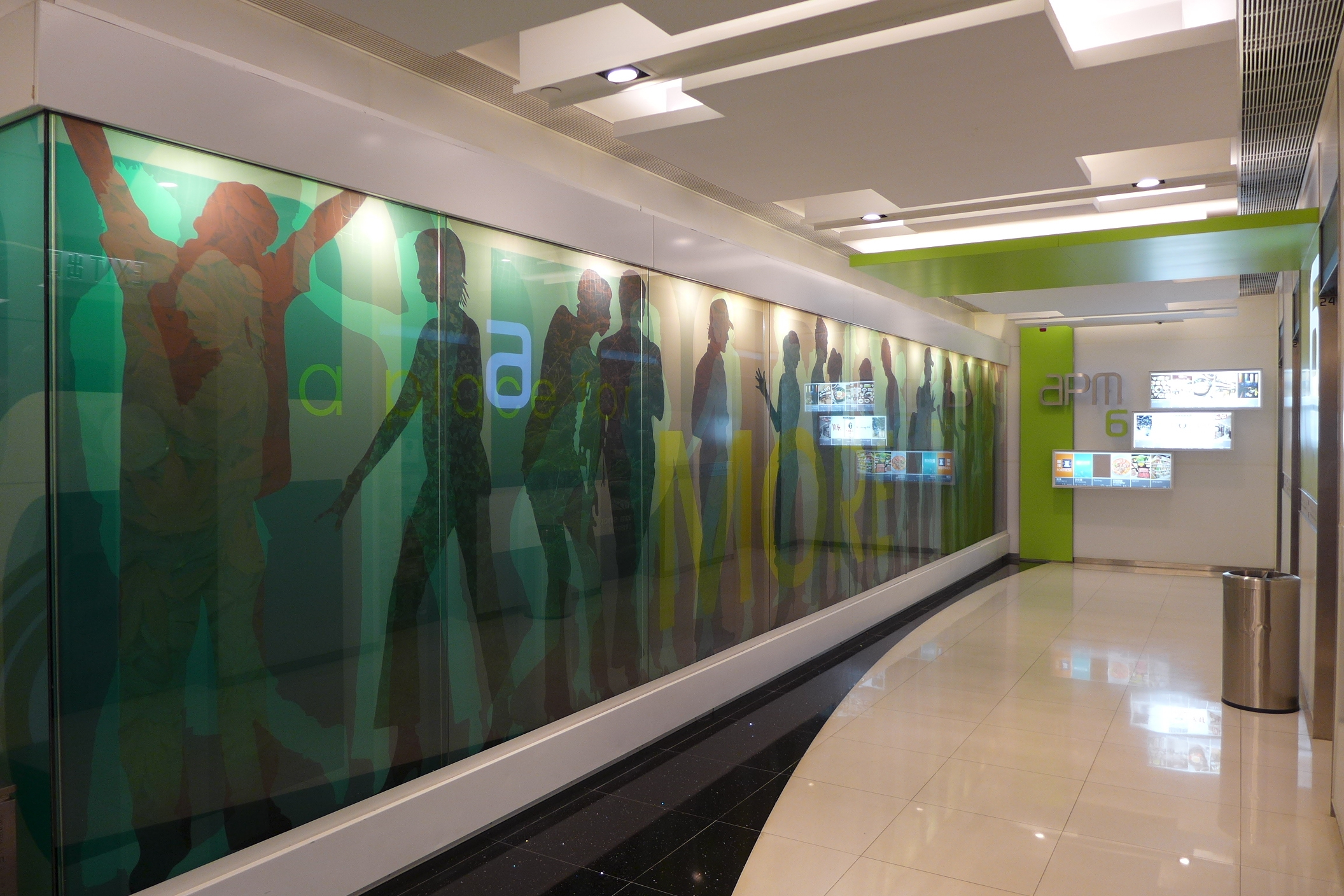 apm level 6 Lift lobby Wall